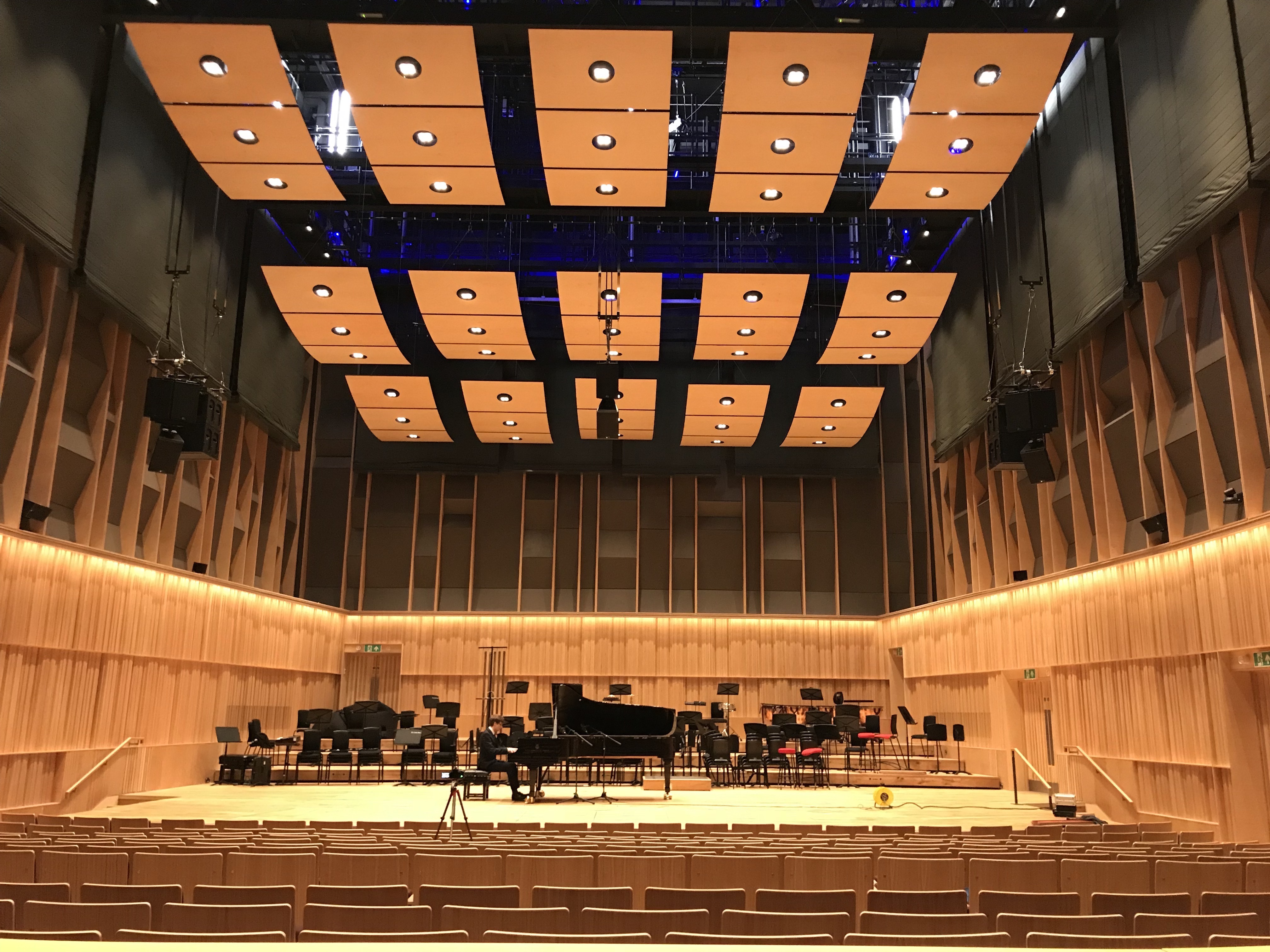 The main concert hall